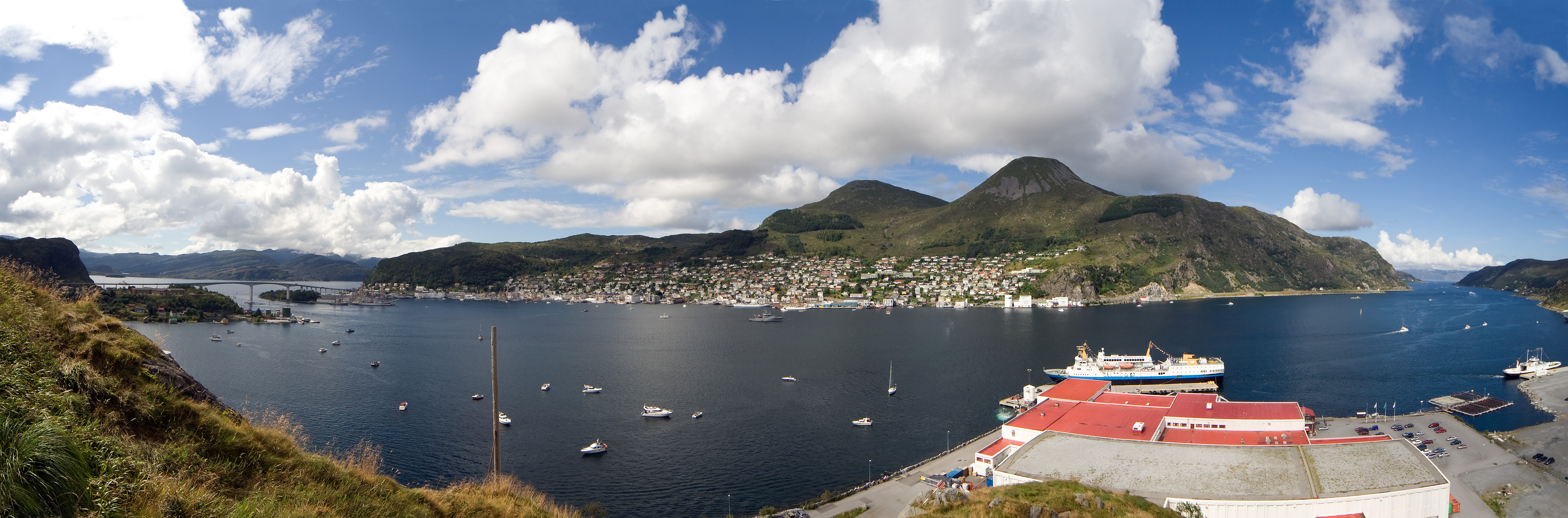 Panorama of Måløy from the final day of the Tall Ships' Race 2008. The ships are about to leave the port.